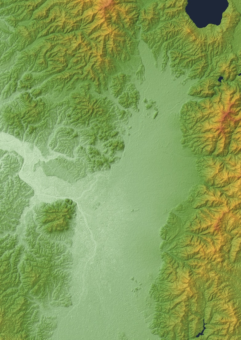 Topographic map of Senboku Plain which a north part of Yokote Basin in Akita Prefecture Japan.